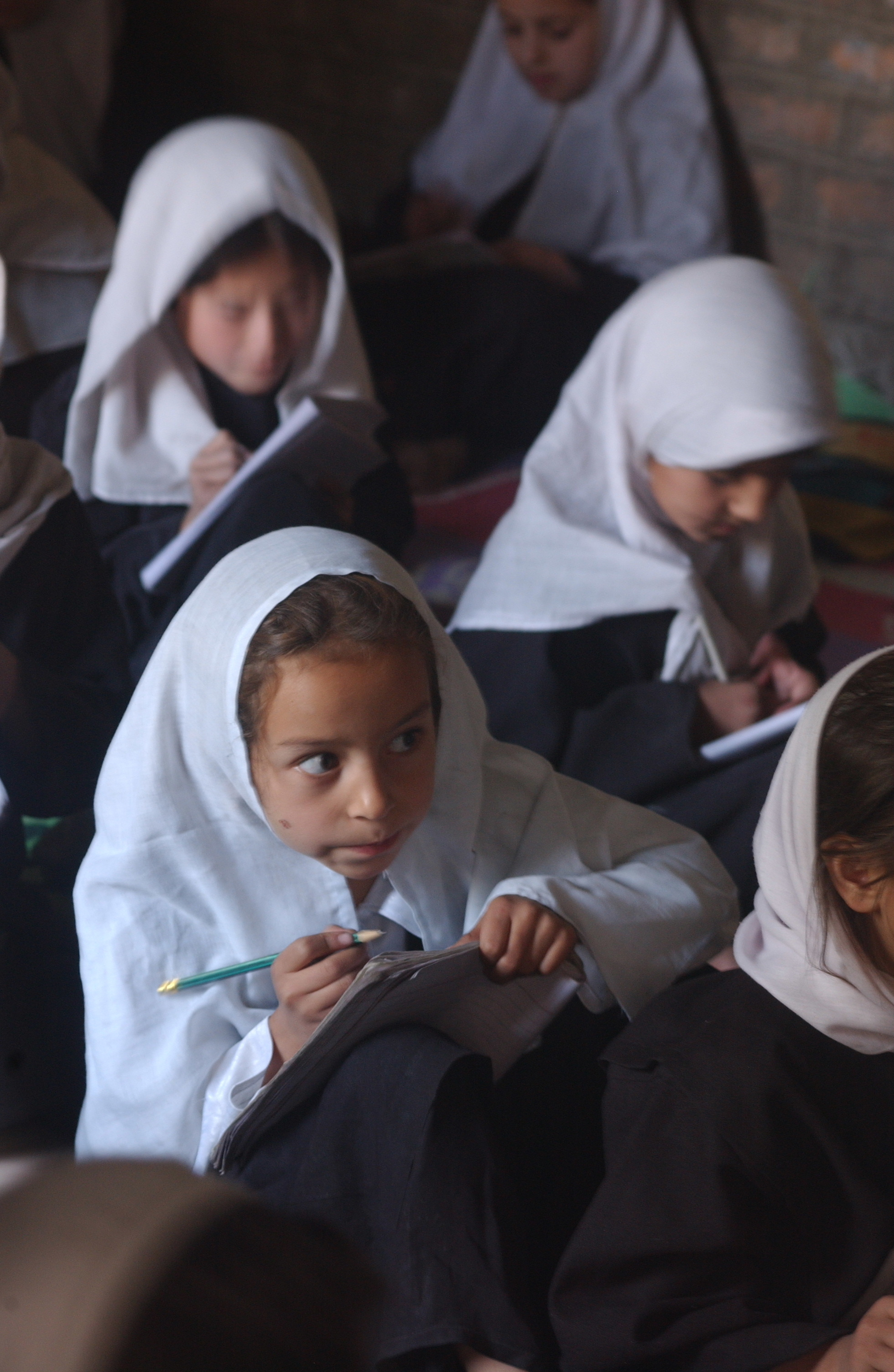 Original caption states, "Afghanistan: Girl's Classroom Scene -- USAID has povided extensive educational programs to improve the education level for young girls and women."